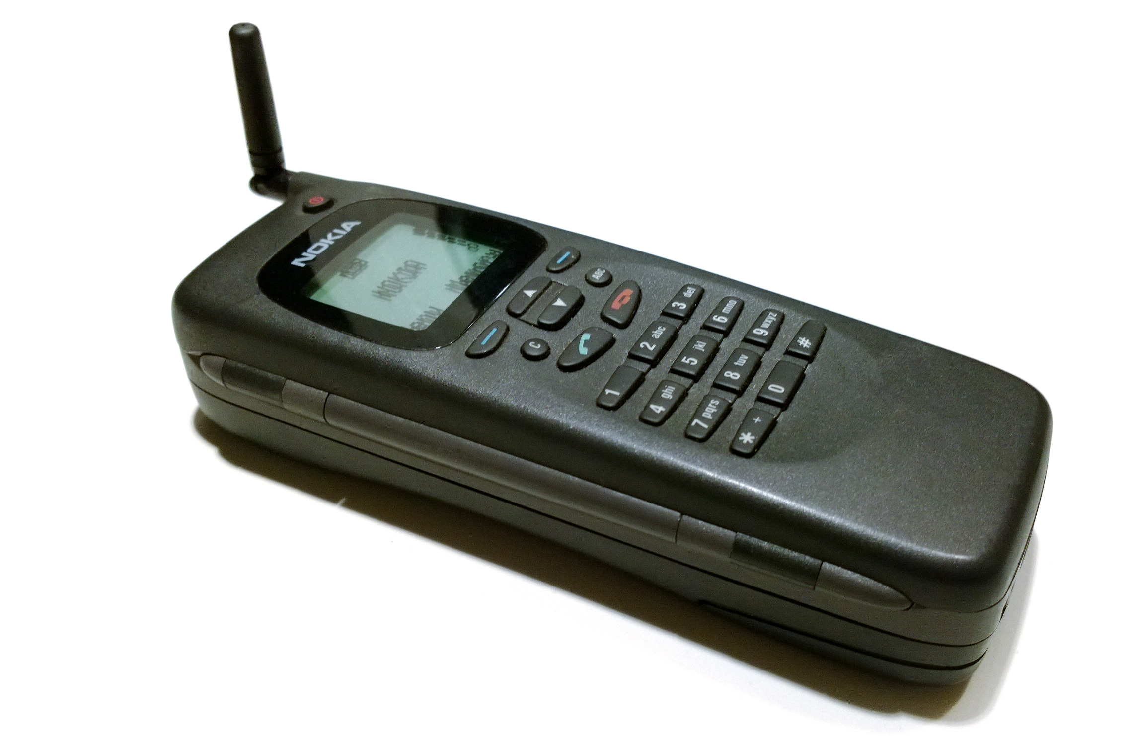 Nokia Communicator 9000 Opened - Derivative of image by textlad on flickR (